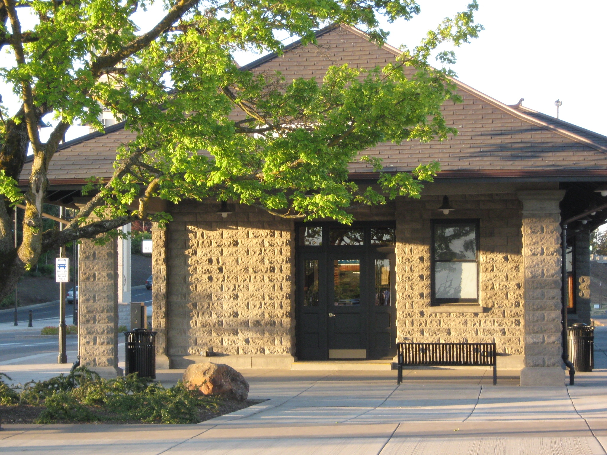 Amtrak Station in Albany, Oregon, USA